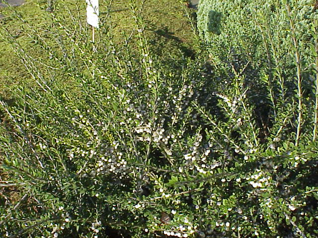 Species: Hymenanthera crassifolia Family: Violaceae Image No. 3